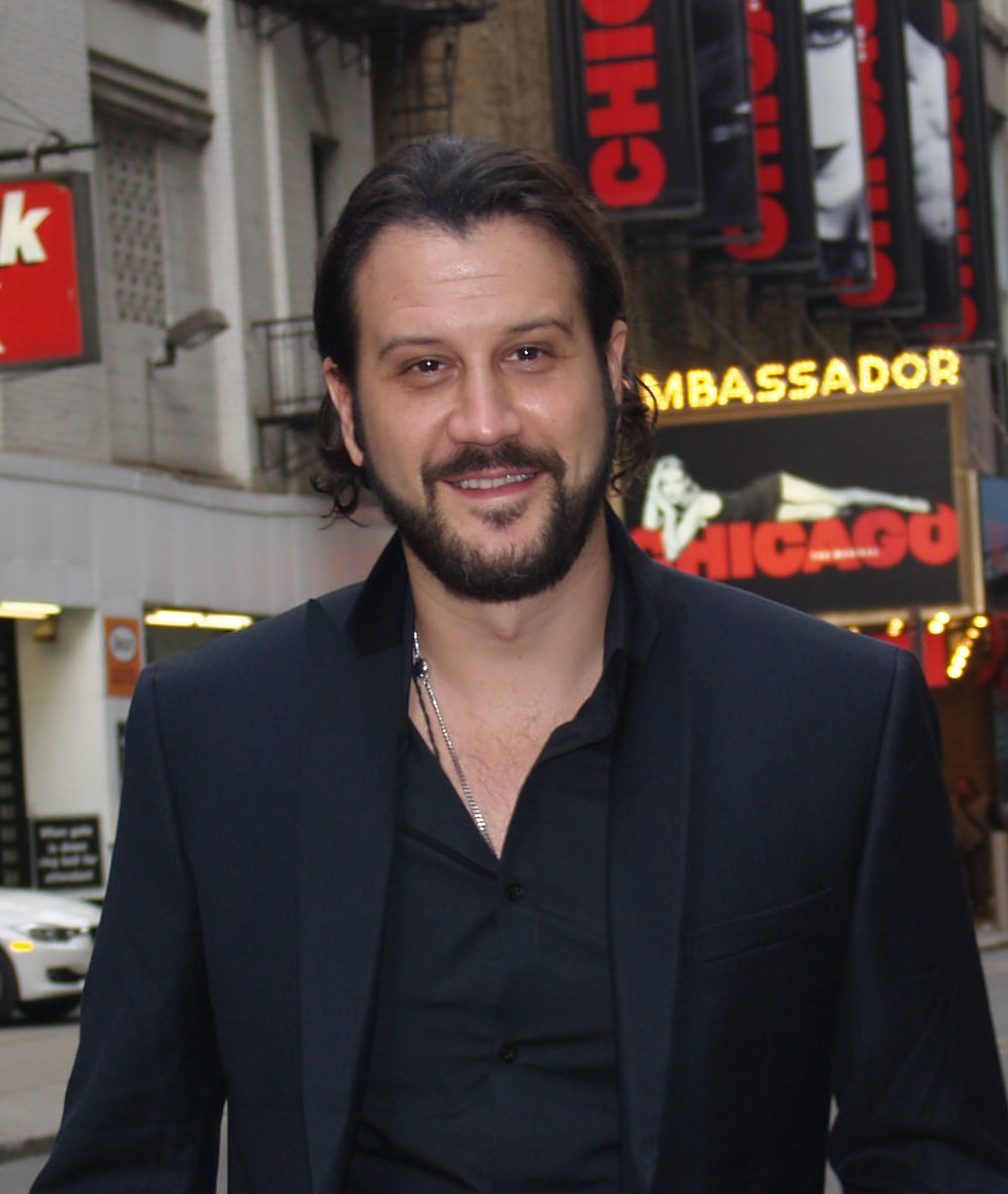 Actor Stefan Kapičić promoting the superhero film Deadpool, in which he plays the X-Man Colossus, at the Mayfair Hotel in Manhattan's Theater District on February 9, 2016. This photo was created by Luigi Novi. It is not in the public domain, and use of this file outside of the licensing terms is a copyright violation.